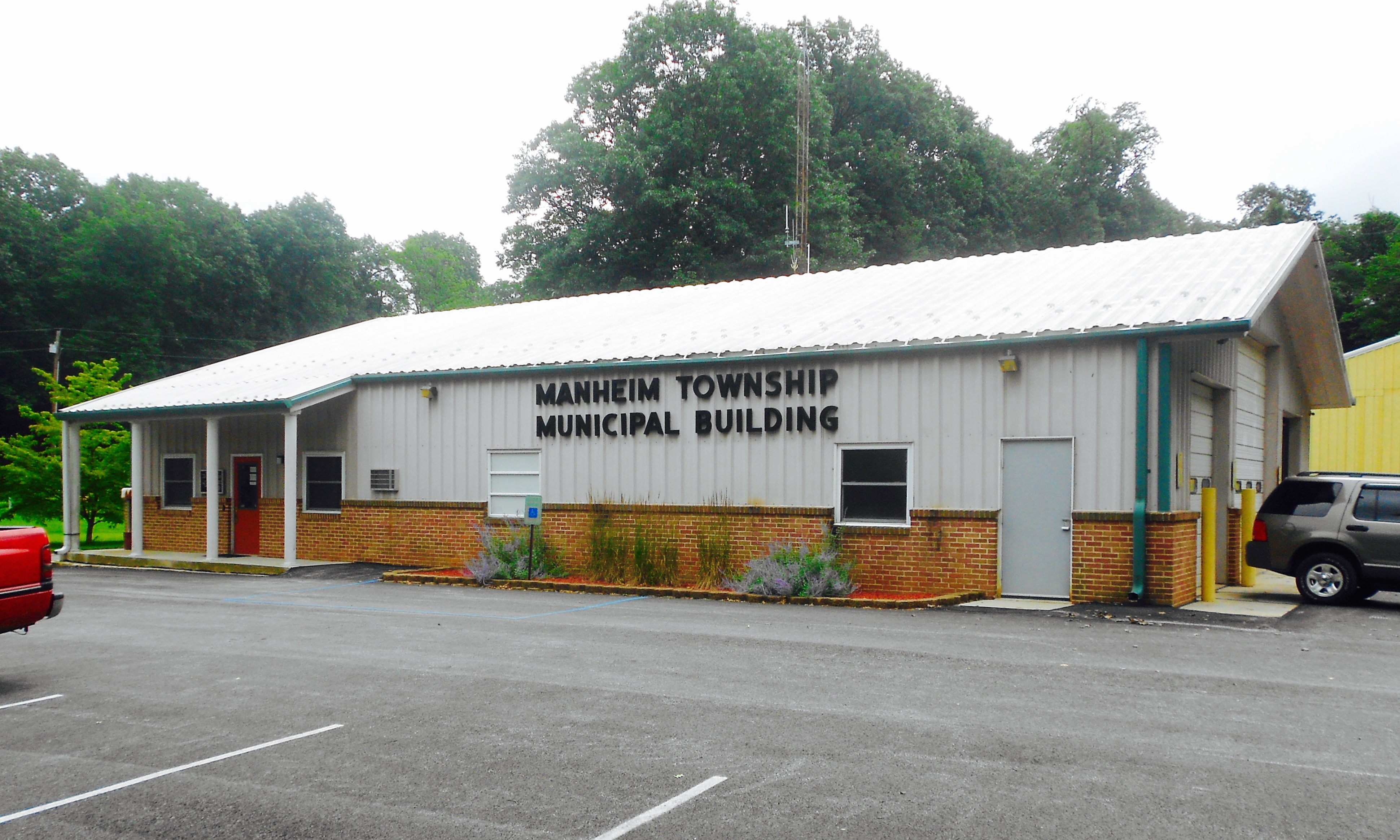 Township building, Manheim Township, York County, Pennsylvania. Way out in the boonies!